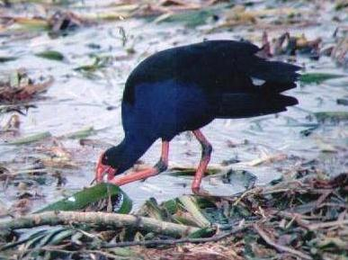 Pukeko, New Zealand. 2008